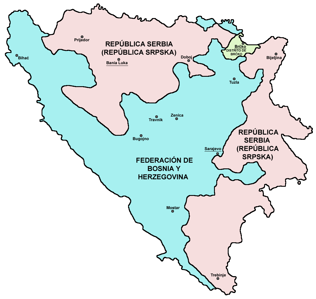 Political division of Bosnia and Herzegovina - Spanish language version.